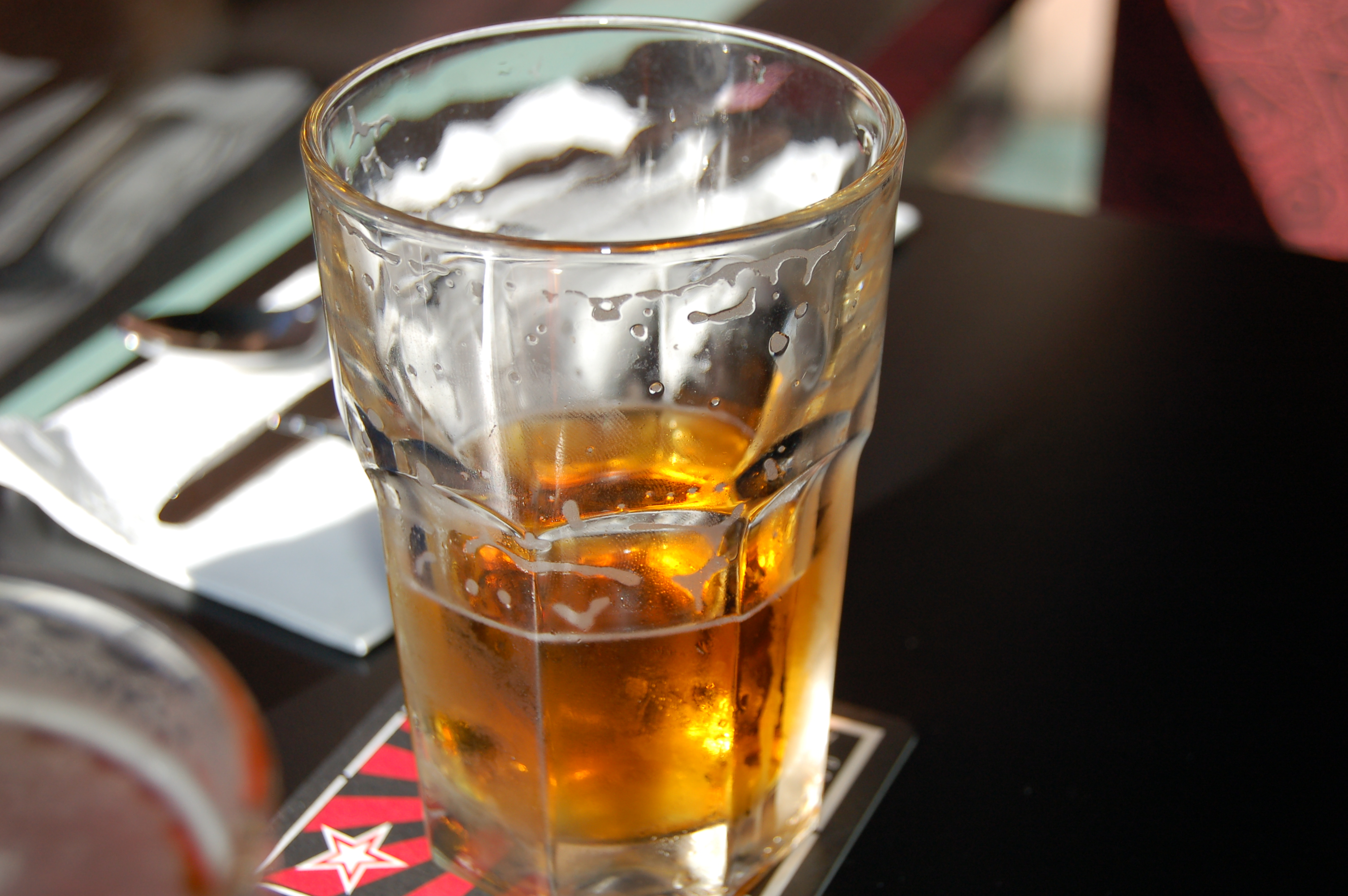 A half-drunk glass of beer